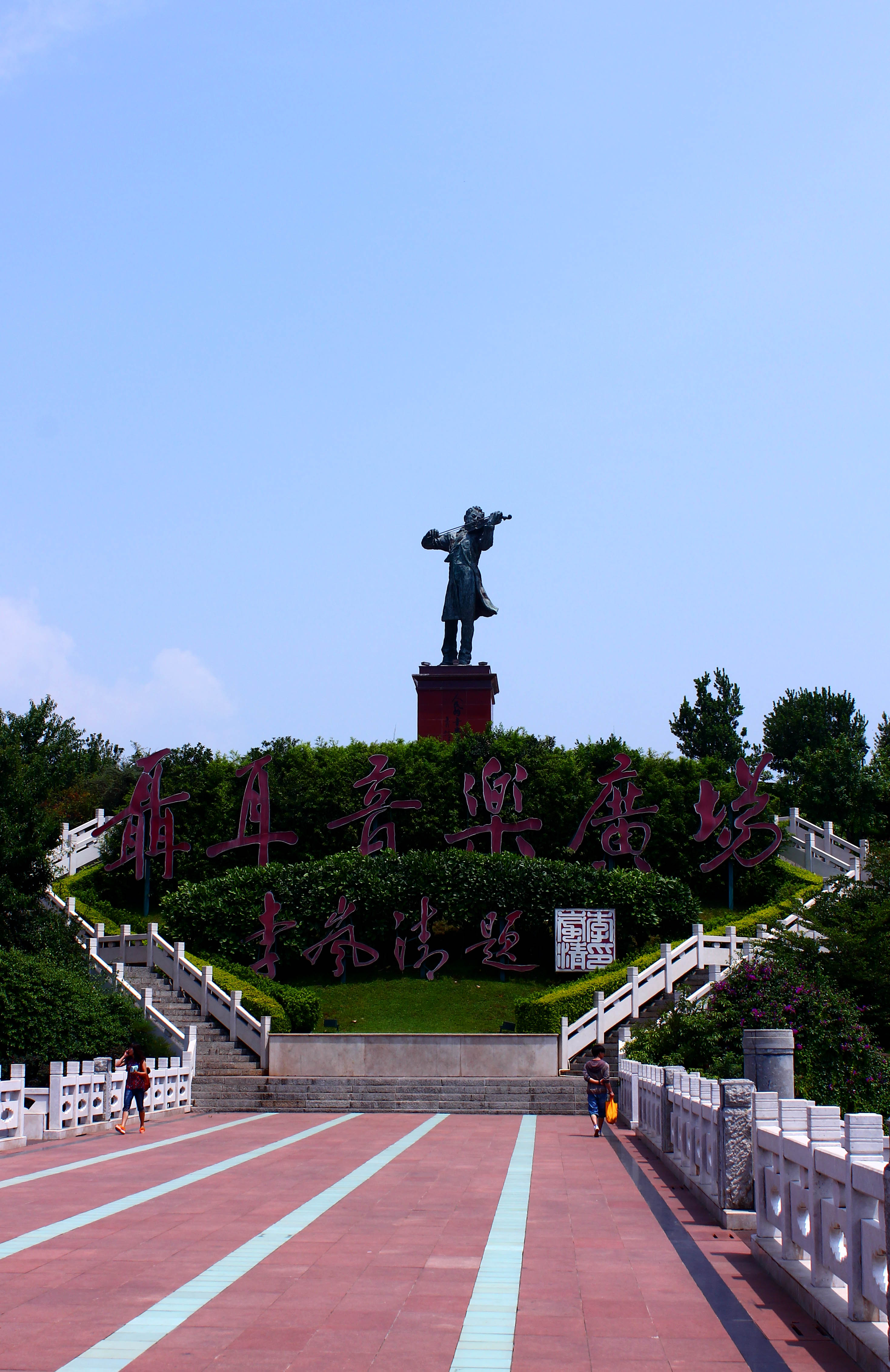 The Statue of Nie Er in Nie Er Music Square, Yuxi City